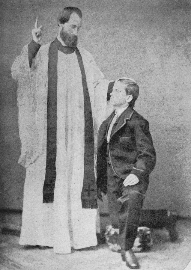 Dr. Richard Hines, the first rector of St. Mary's Episcopal Church (later St. Mary's Episcopal Cathedral) in Memphis, Tennessee. He served from 1858-1871.